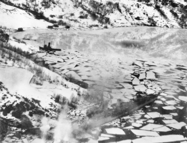 The German destroyer Z33 under attack by Allied aircraft while she is sheltering in Førde Fjord, Norway on 9 February 1945. Following the war, Z33 was handed over to the Soviet Union on 2 December 1945 as part of Germany's reparations. She was scrapped in 1962.